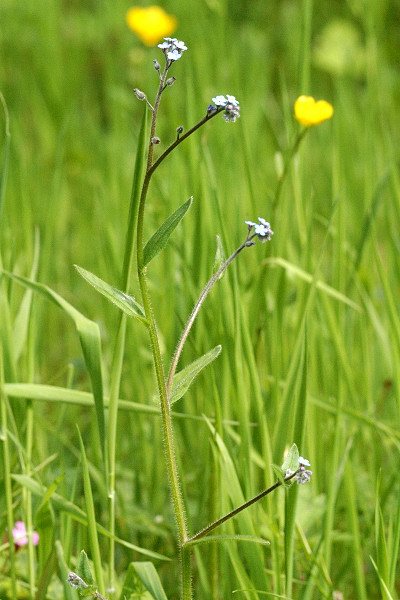 Myosotis nemorosa from Commanster, Belgian High Ardennes .